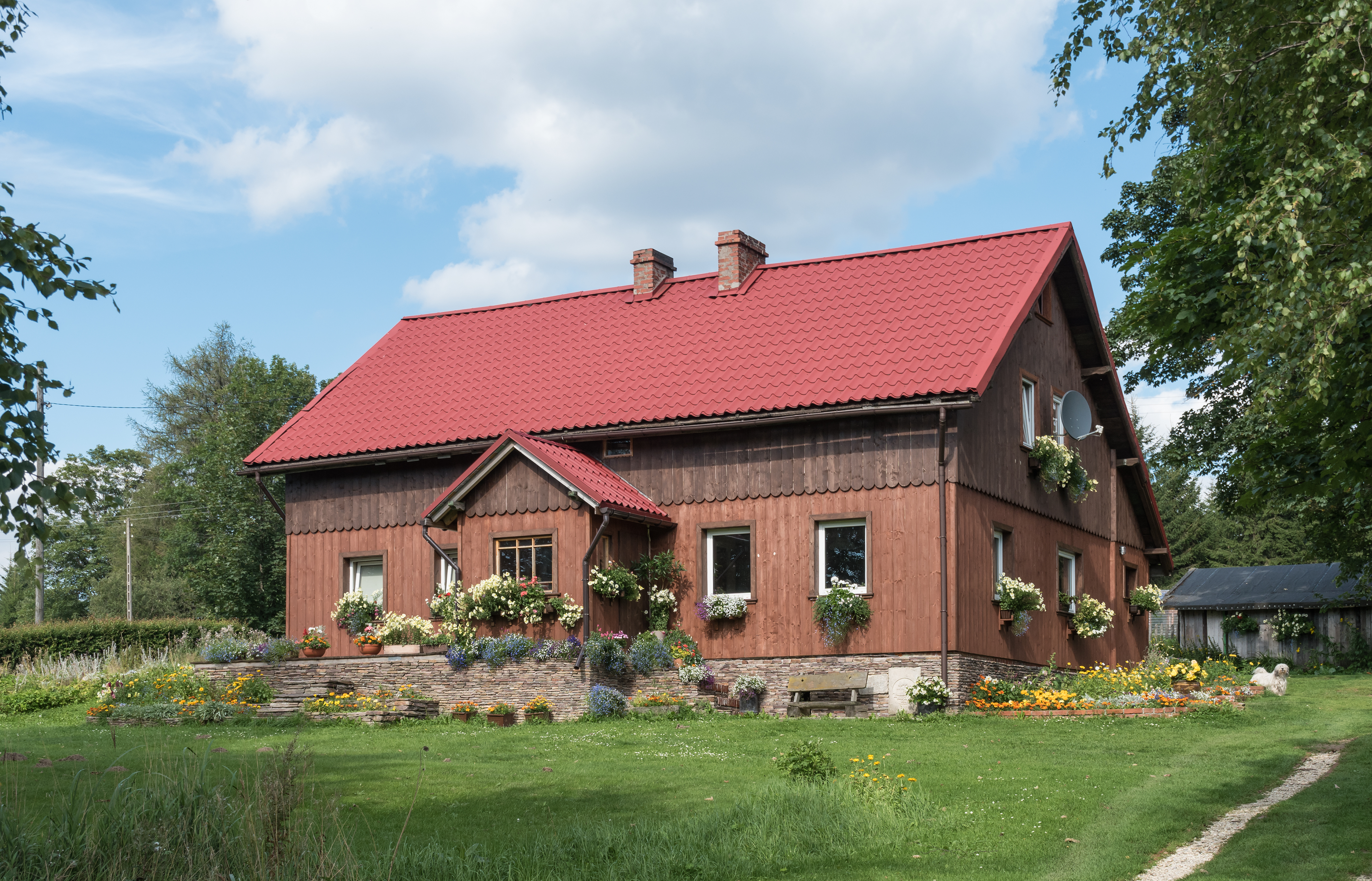 House No. 44 in Lasówka